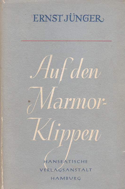 Ernst Jünger: Auf den Marmorklippen Hanseatische Verlagsanstalt Hamburg, 8° Oktav, 156 S., Ln. (This novel, which translates as The Marble Cliffs, was an allegorical attach on Nazism)